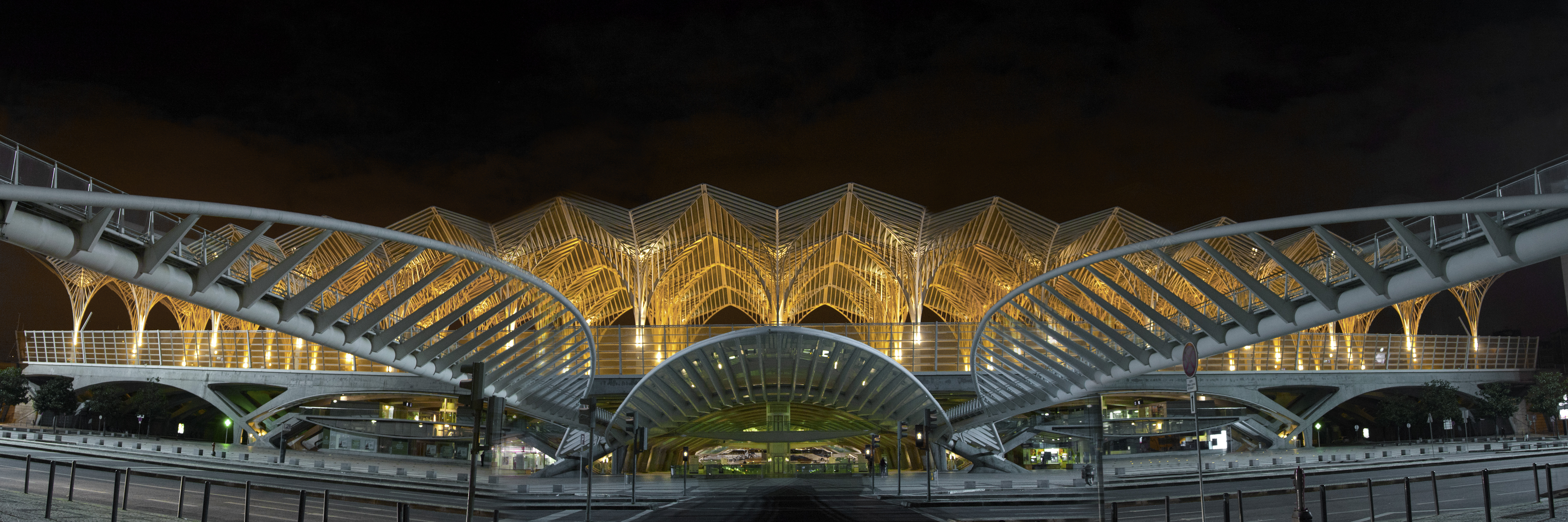 View of main entrance of Gare do Oriente Station at night